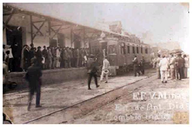 Inauguration of passage of the Estrada de Ferro Vitória a Minas (EFVM), in Antônio Dias, Minas Gerais, Brazil.